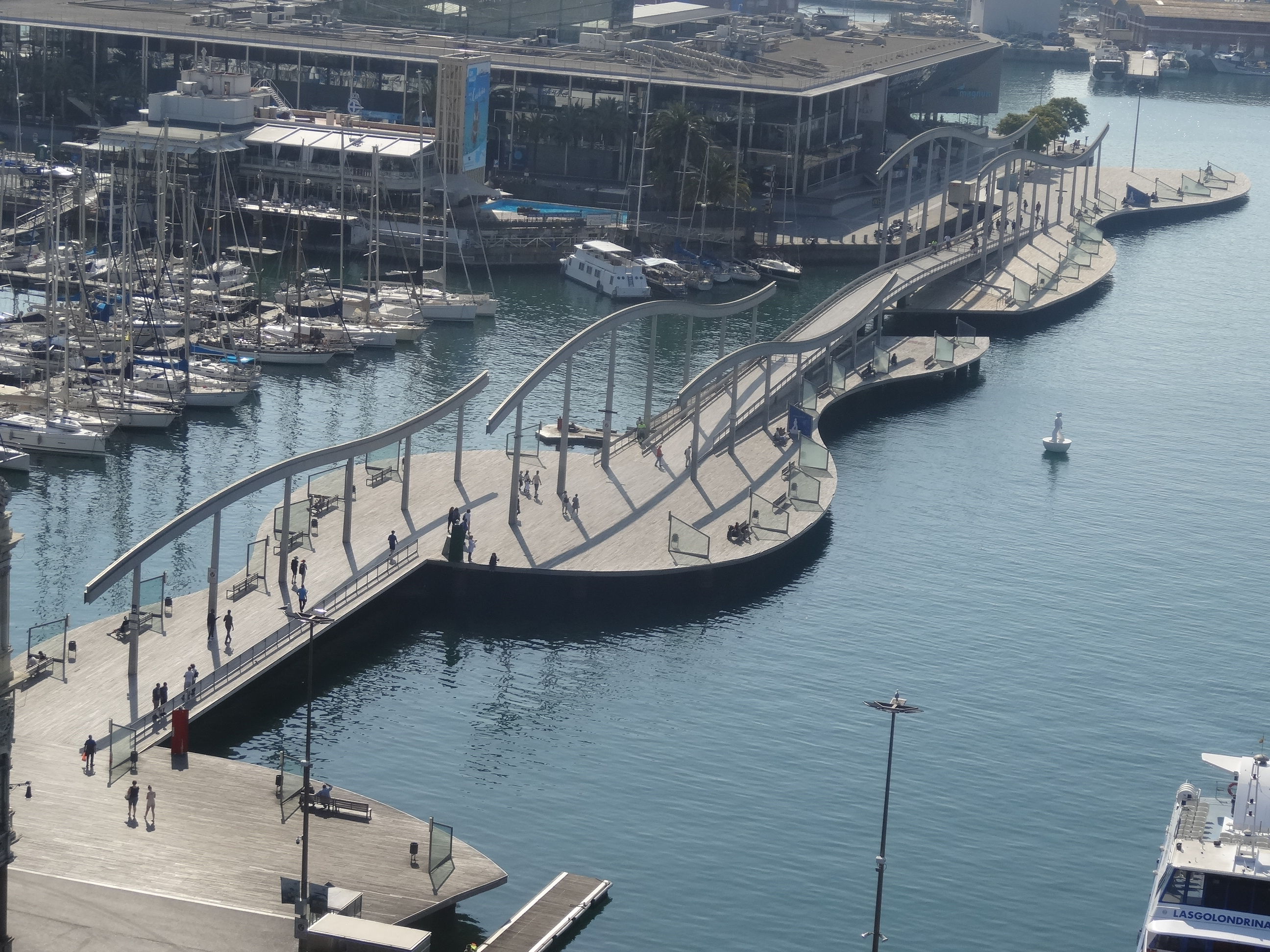 Views from Monument a Colom (Barcelona)